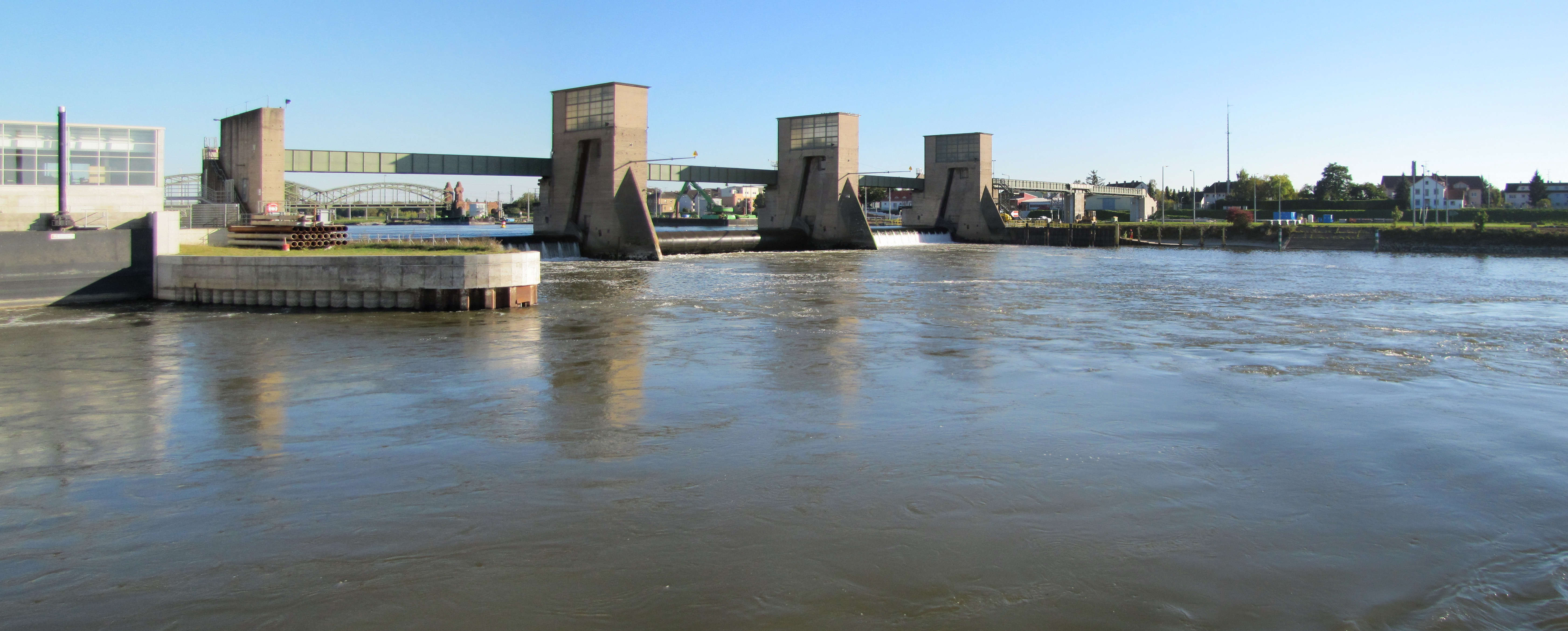 Last weir and lock on "Main" river, between Kostheim (left) and Ginsheim-Gustavsburg (right), Hesse, Germany.